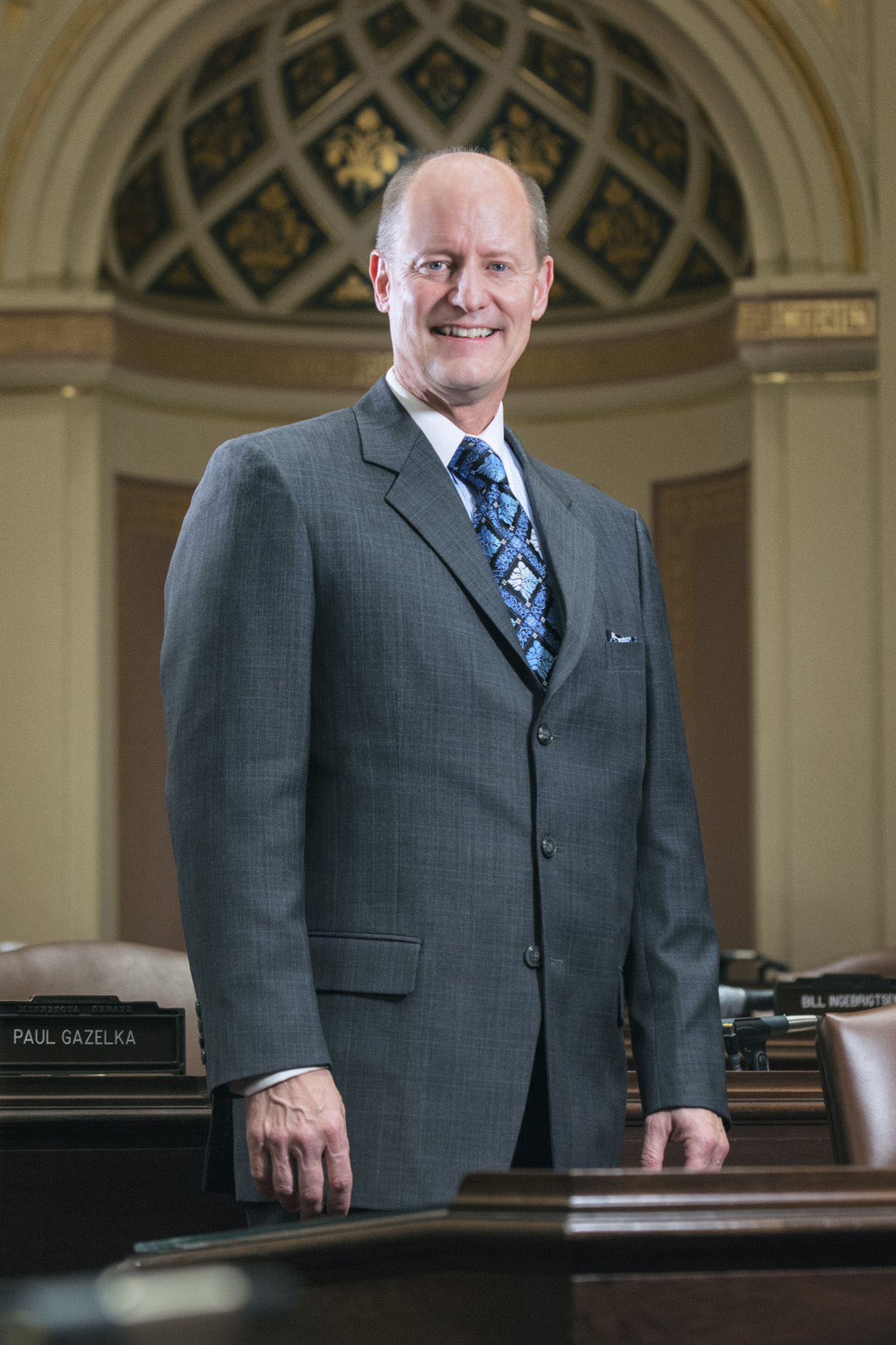 Minnesota Senate Majority Leader Paul Gazelka (R-Nisswa)